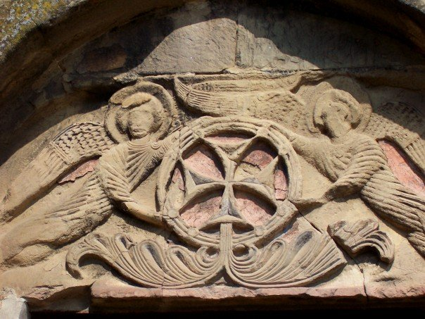 Ascension of the Cross. Bas-relief from the Jvari Monastery, Mtskheta, Georgia